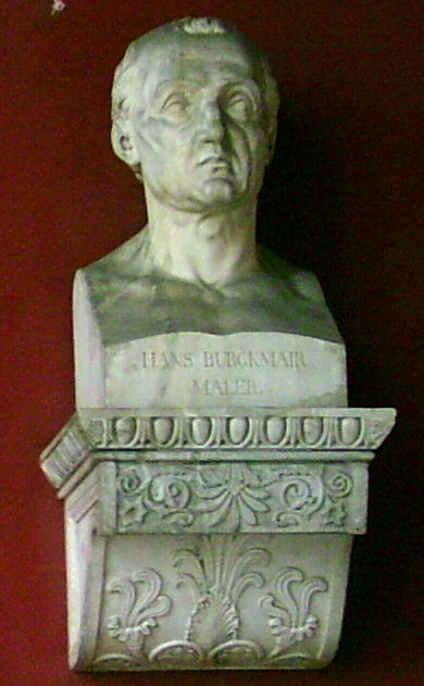 Bust of Hans Burgkmair at Ruhmeshalle ("Hall of fame"), München, Germany. Picture taken by myself: Dominik Hundhammer, München, 27 March 2006.